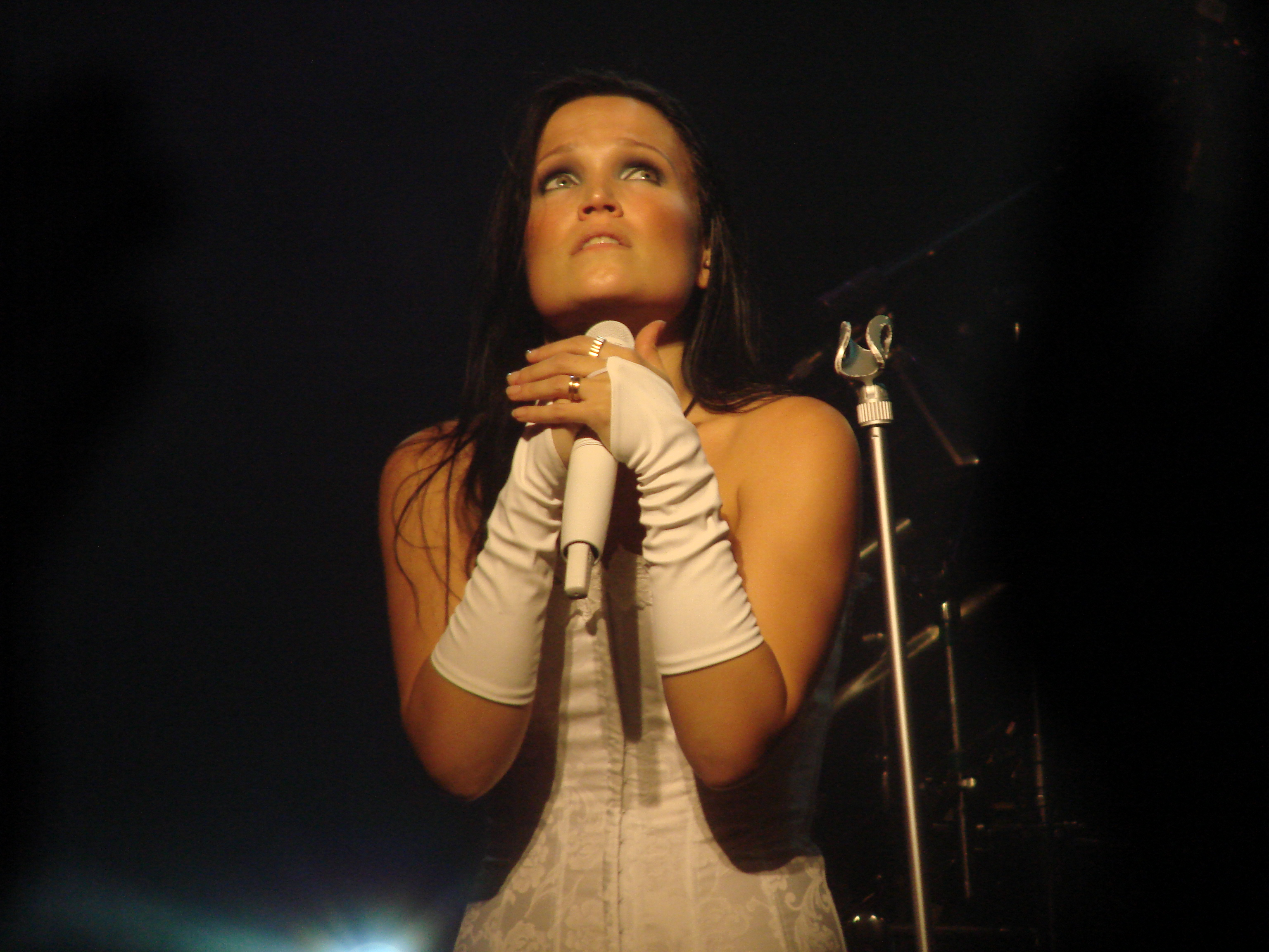 Tarja Turunen singing at the Obras Stadium in Buenos Aires, Argentina, on September 6, 2008. This was the last show of the Winter Storm tour on America.